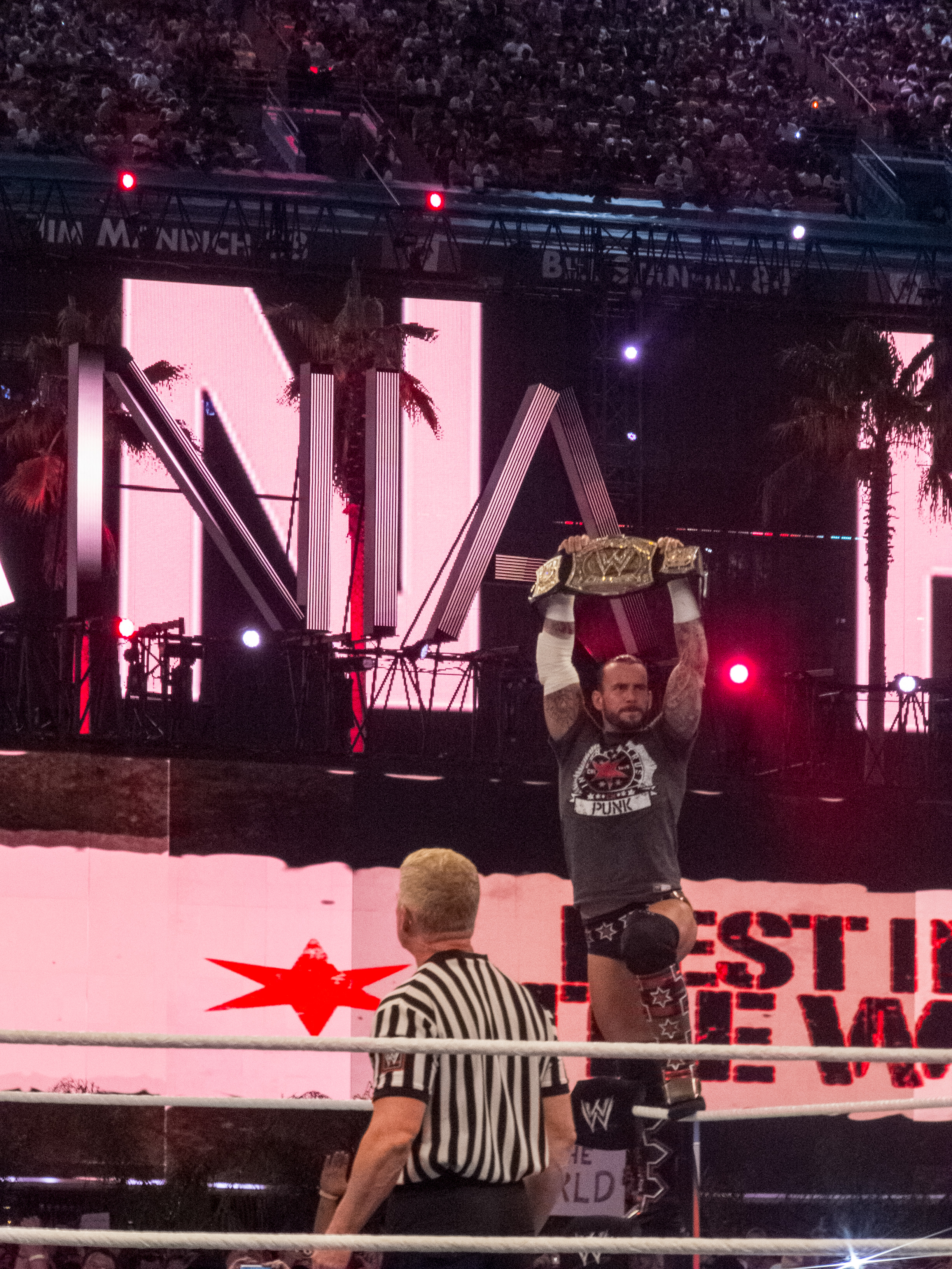 WWE Championship